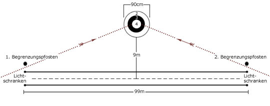 The competition course of the Kassai Horseback Archery School - Horseback Archery World Association (HAWA)